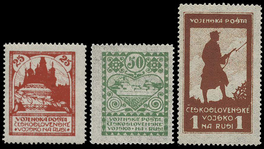 Stamps of the Czechoslovak legion in Russia, 1919